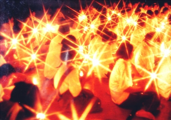 the ceremony walks with lighted candles in hand around a temple on Vesak in Uttaradit, Thailand.